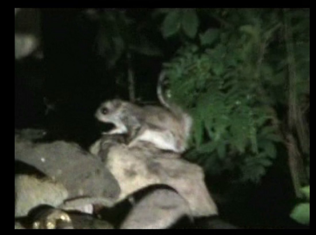 Siberian Flying Squirrel (Pteromys volans) photographed in Klaukkala, Finland